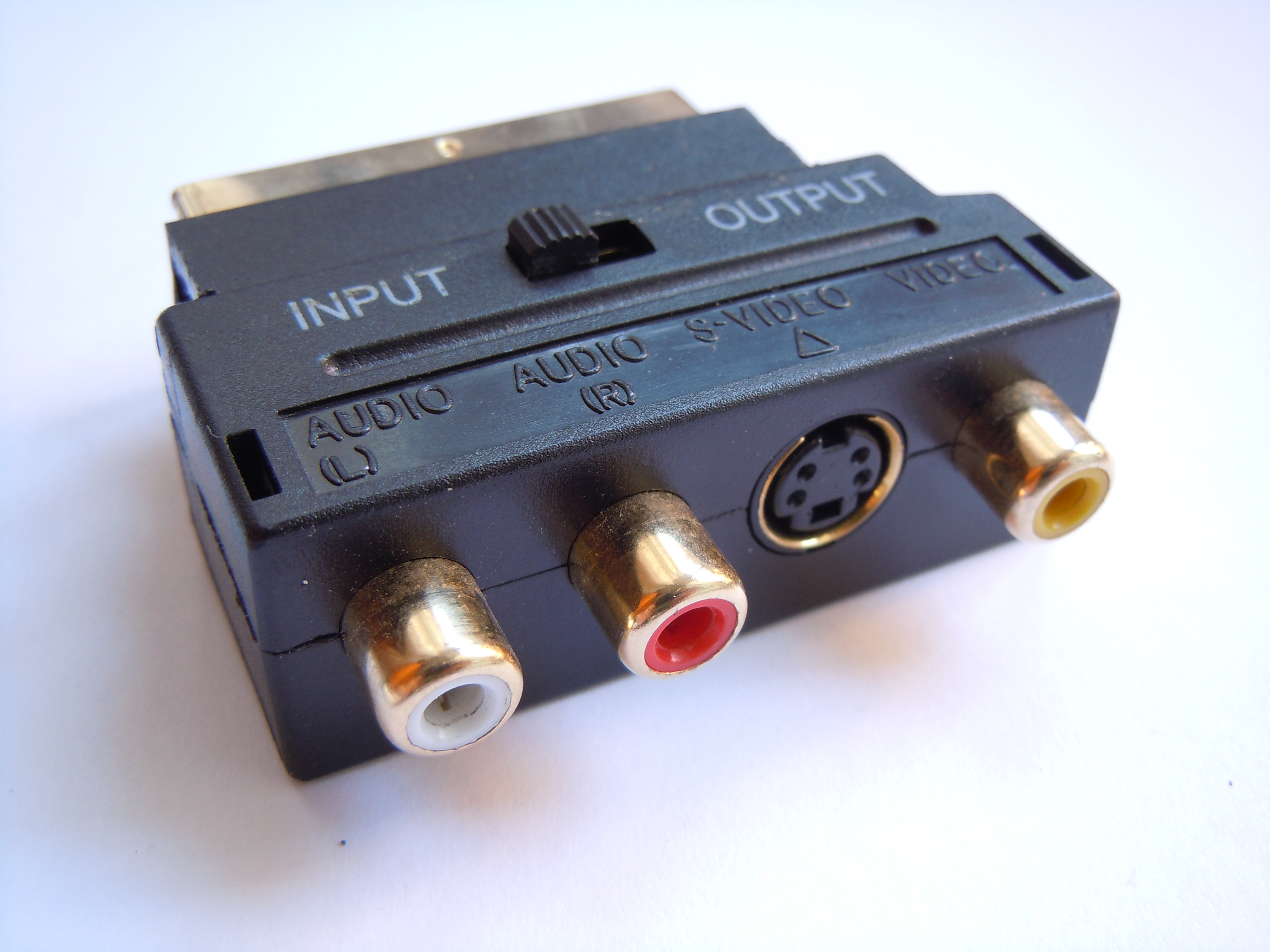 Input/Output SCART adapter for RCA connectors (stereo audio and composite video) and Input S-Video (mini-DIN 4-pin).